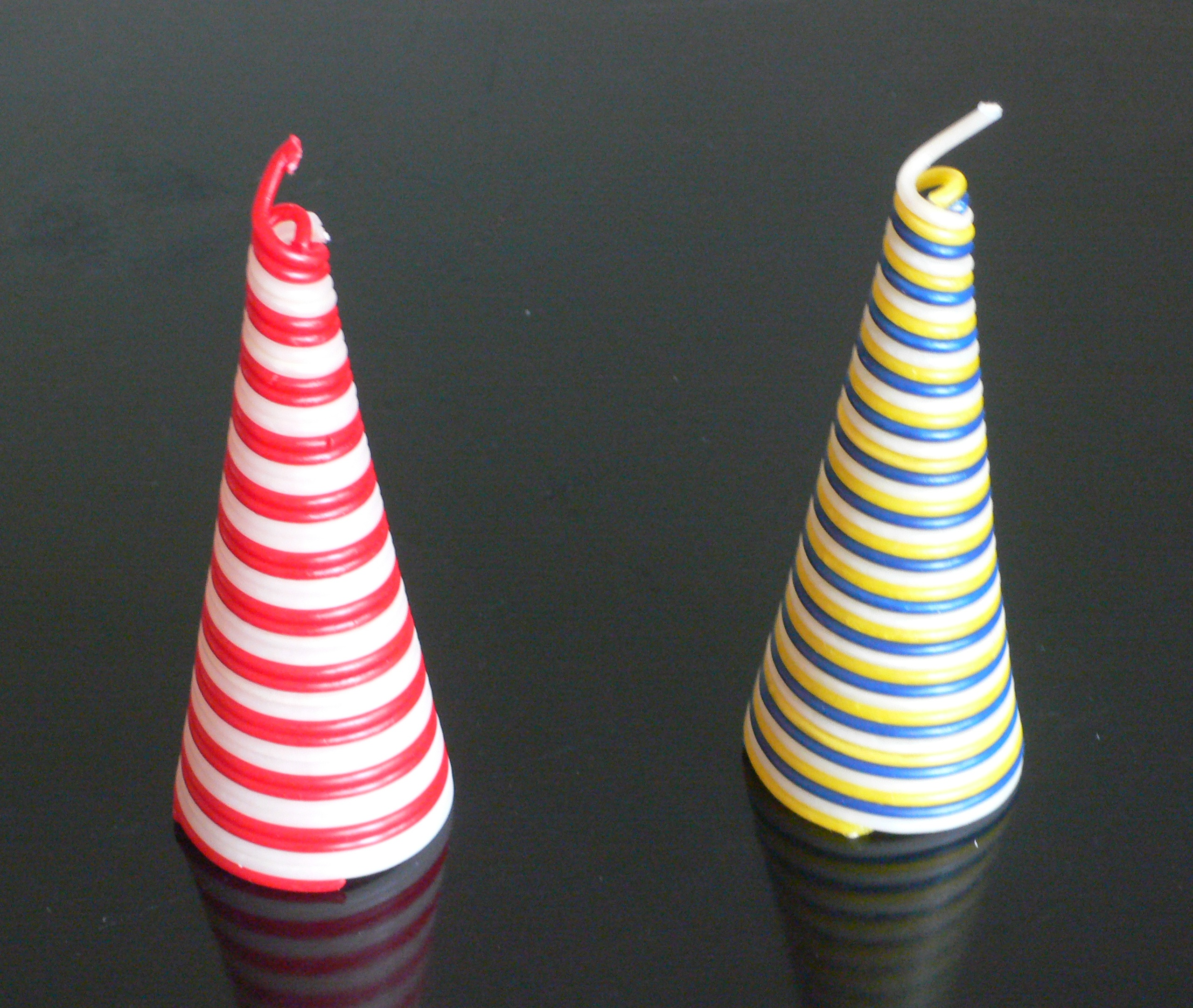 Two "Newweling" candles; traditionally put on graves on “All Saints Day” in Mainz, Germany.